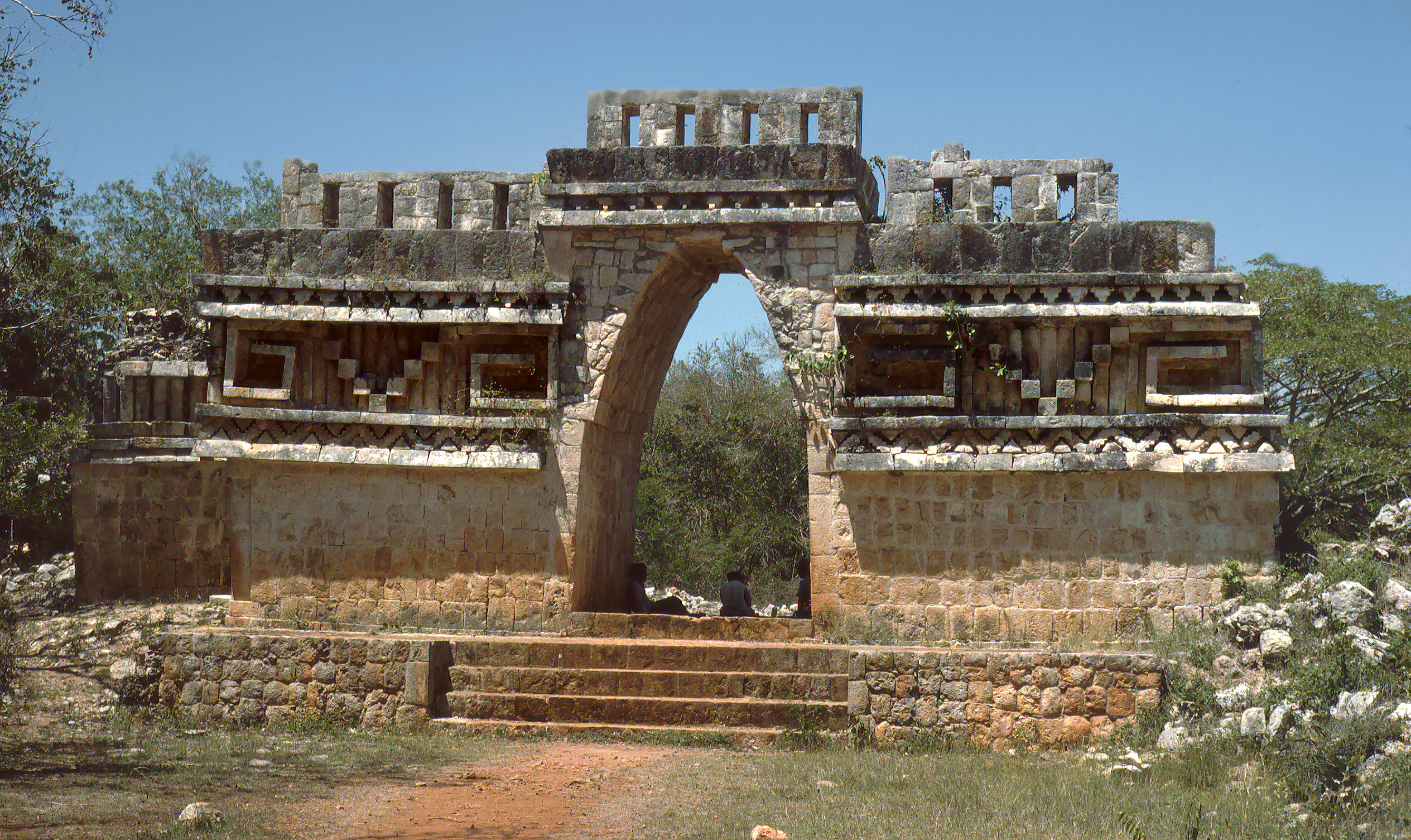 Labná, Yucatan, Mexico: archway.